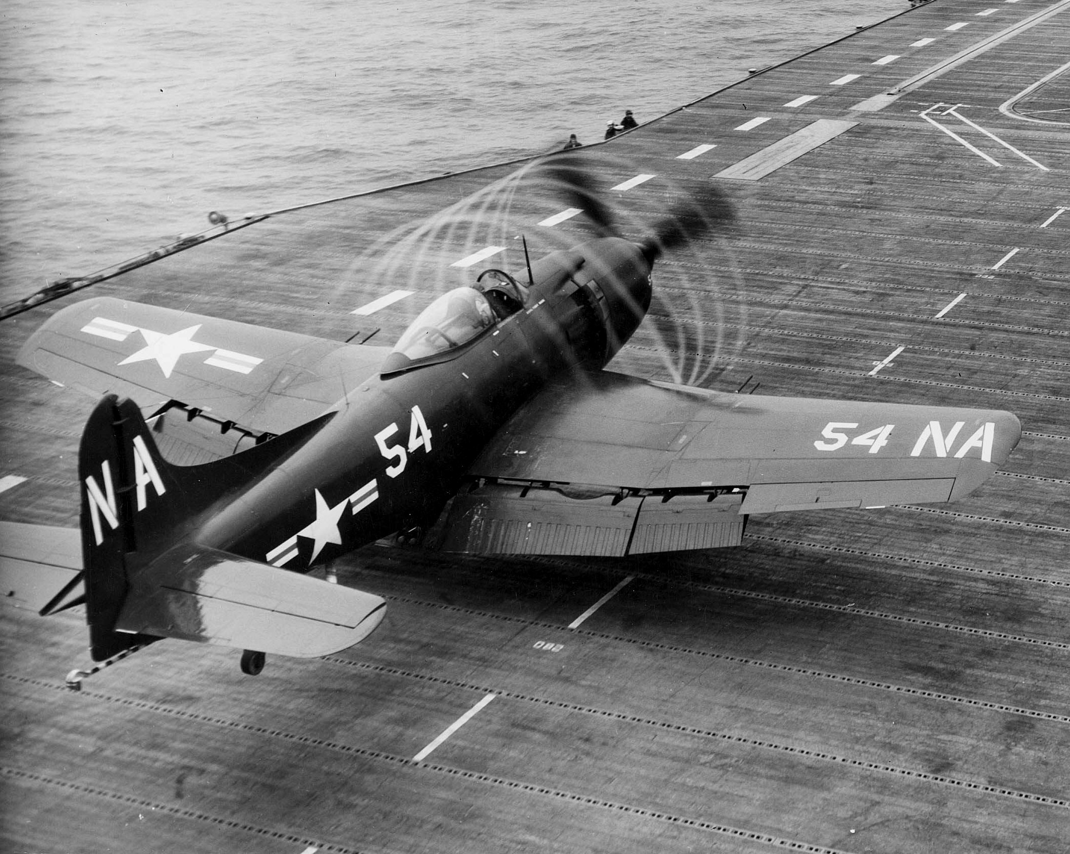 A U.S. Navy Martin AM-1Q Mauler electronic countermeasures aircraft of composite squadron VC-4 on the flight deck of the aircraft carrier USS Kearsarge (CV-33), with vapor rings from the propellor, during a qualification cruise, 25 to 29 April 1949, off Atlantic City, New Jersey (USA).